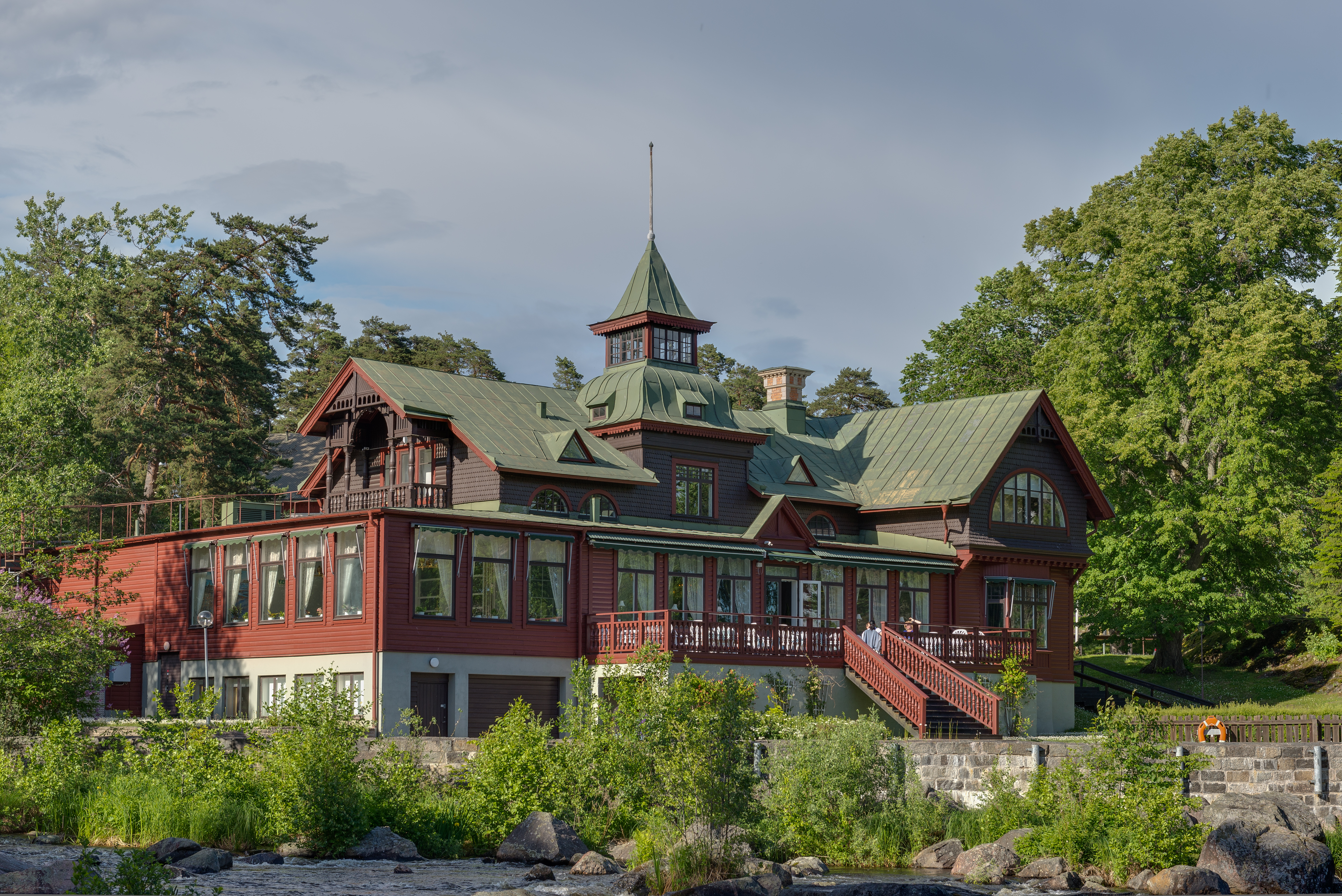 Älvkarleby hotel. Built 1898. Exposure fusion from a single exposure.